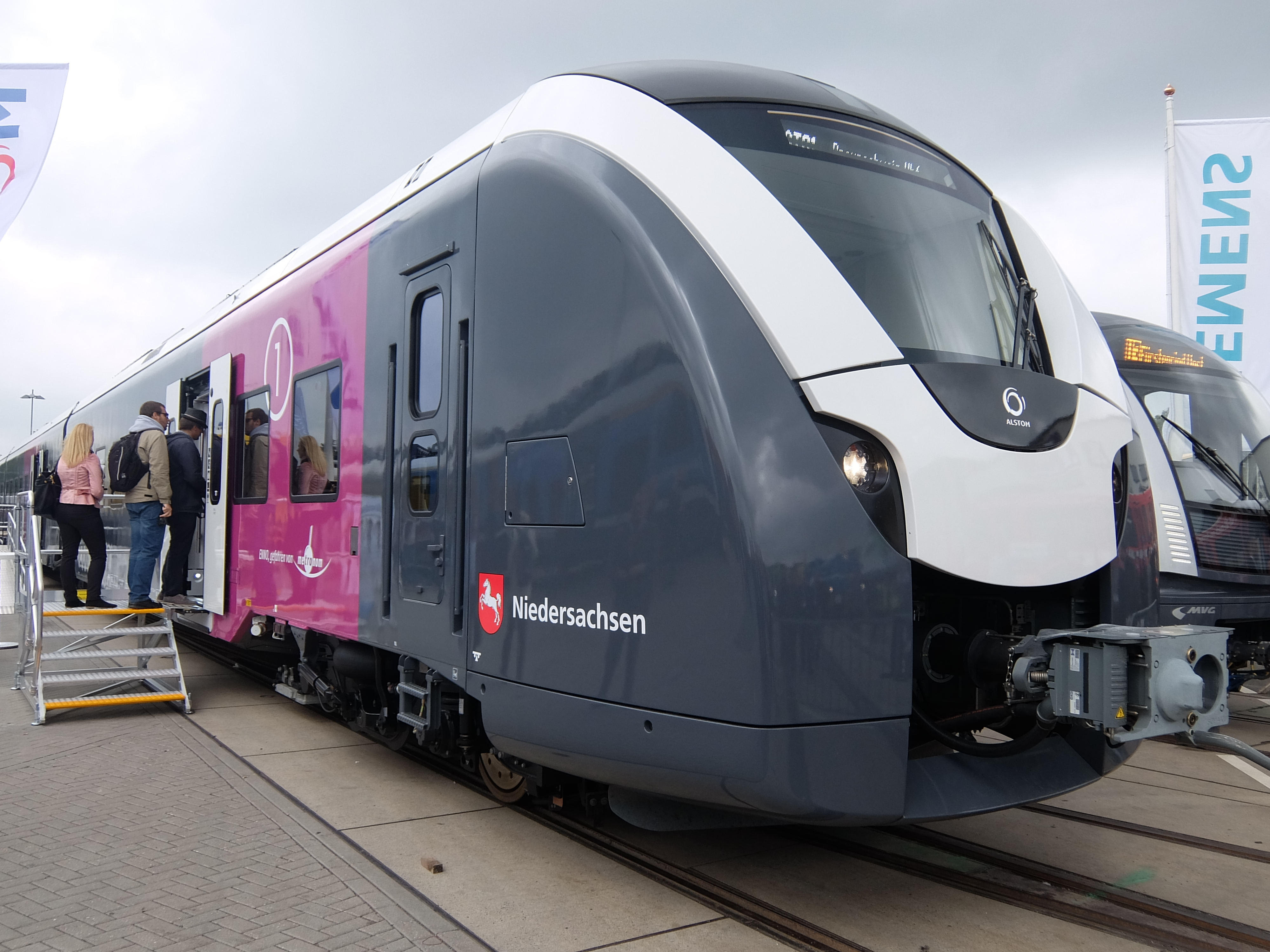 Coradia Continental by Alstom at Innotrans 2014.